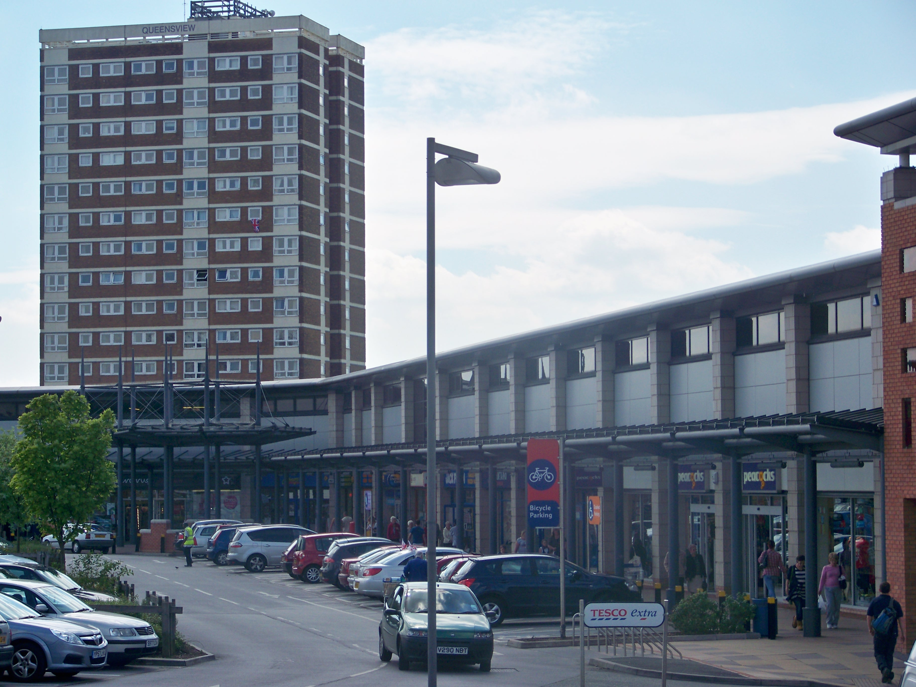 A view of the shops at Seacroft Green shopping centre and Queensview (a sheltered housing complex) in Seacroft, Leeds, West Yorkshire. Taken from North Parkway on the afternoon of Friday the 11th of June 2010.